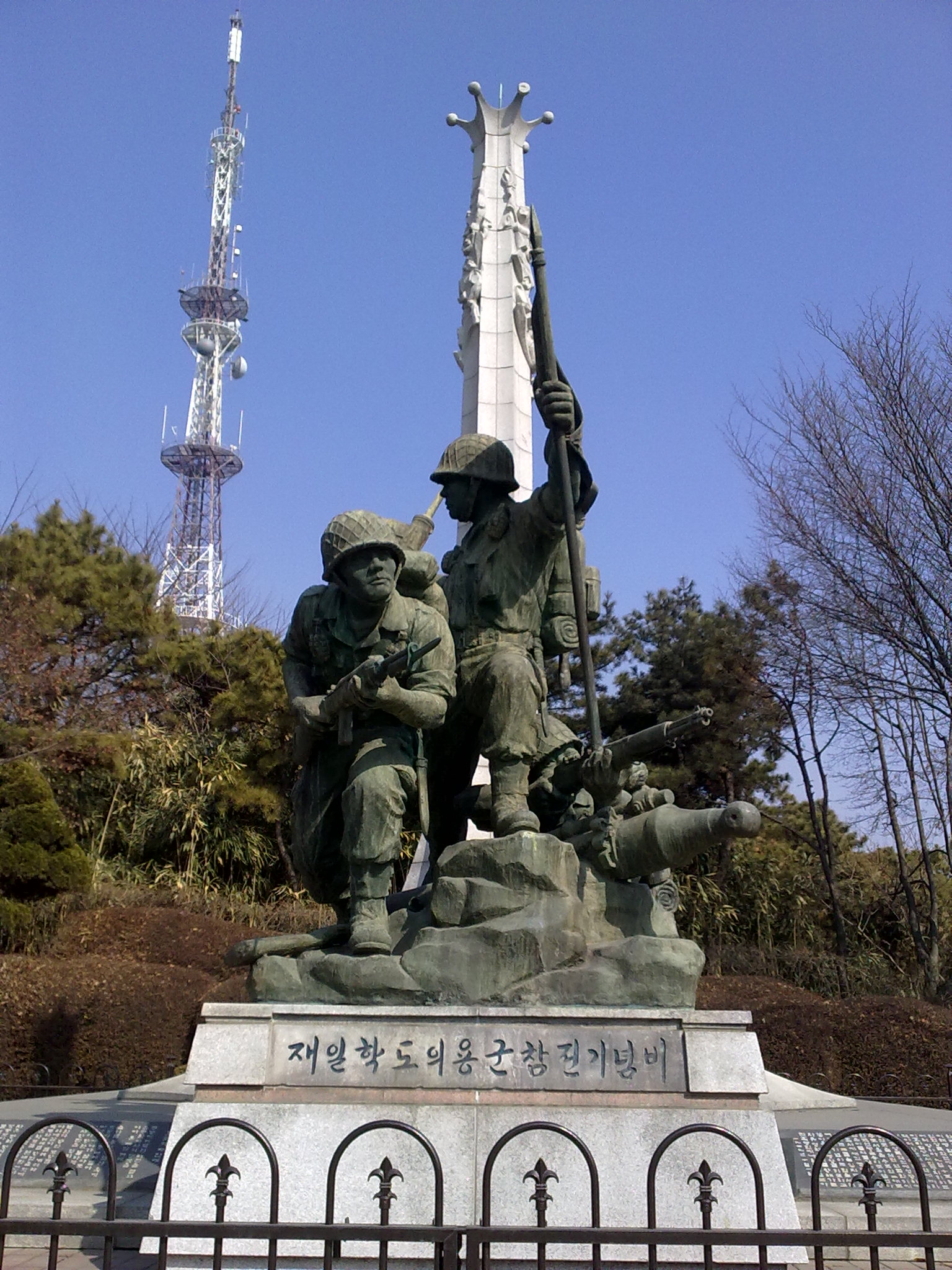 Student Soldier monument in Incheon